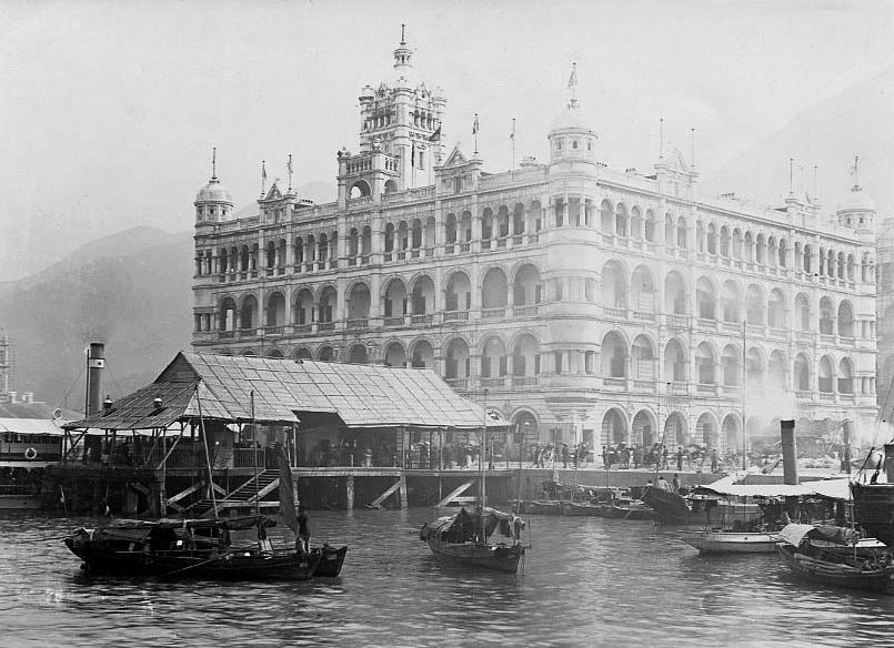 Hong Kong waterfront, 1900s. Note: Queen's Building was built in 1899. The pier is probably the temporary pier off Ice House Street [1894-1911] [1], that was leased to the Star Ferry Co. from 1900. It was replaced by the Second Generation Star Ferry Pier in 1912.